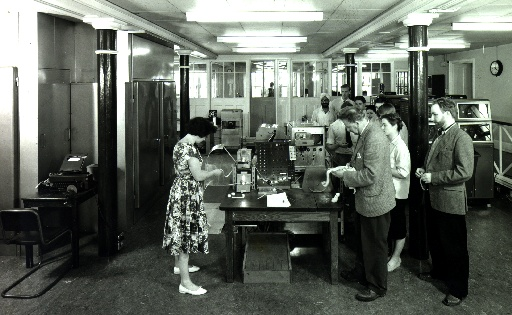 EDSAC II, 10th May 1960, user queue